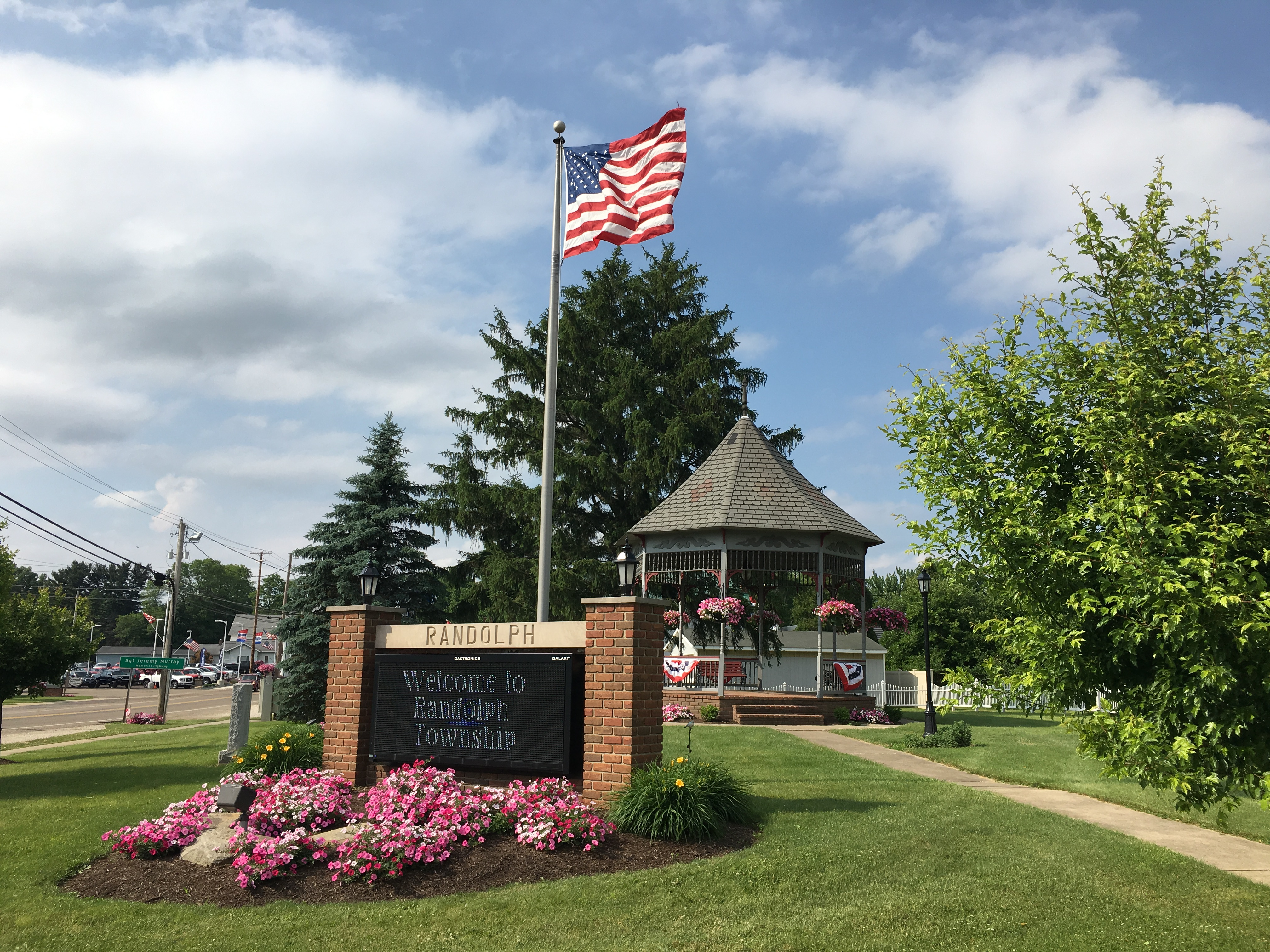 Town center of Randloph, Ohio in June 2018.